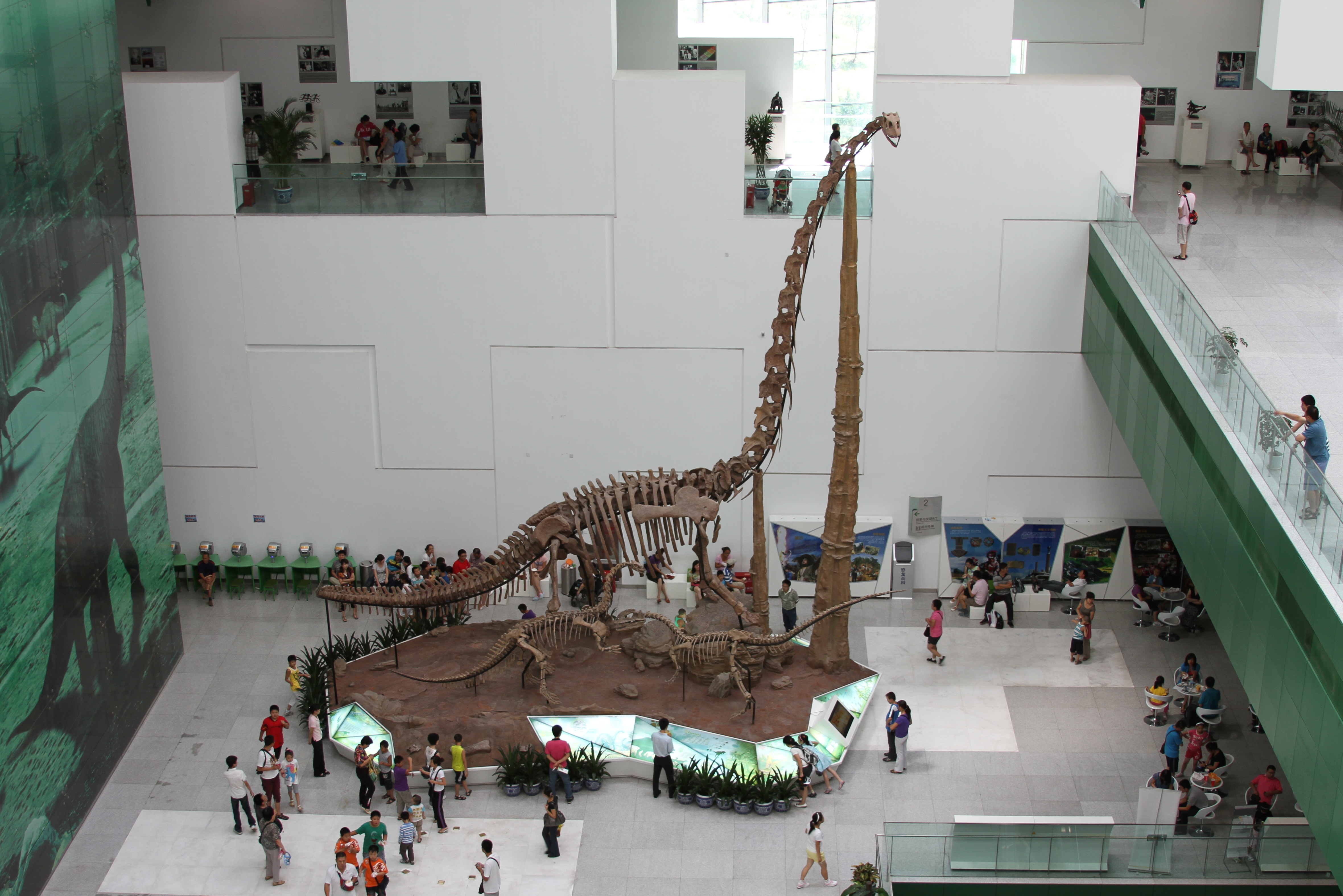 The main hall inside the Beijing Science and Technology Museum on 14-Aug-2010.